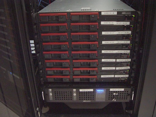 Wikimedia servers on the first day of installation.